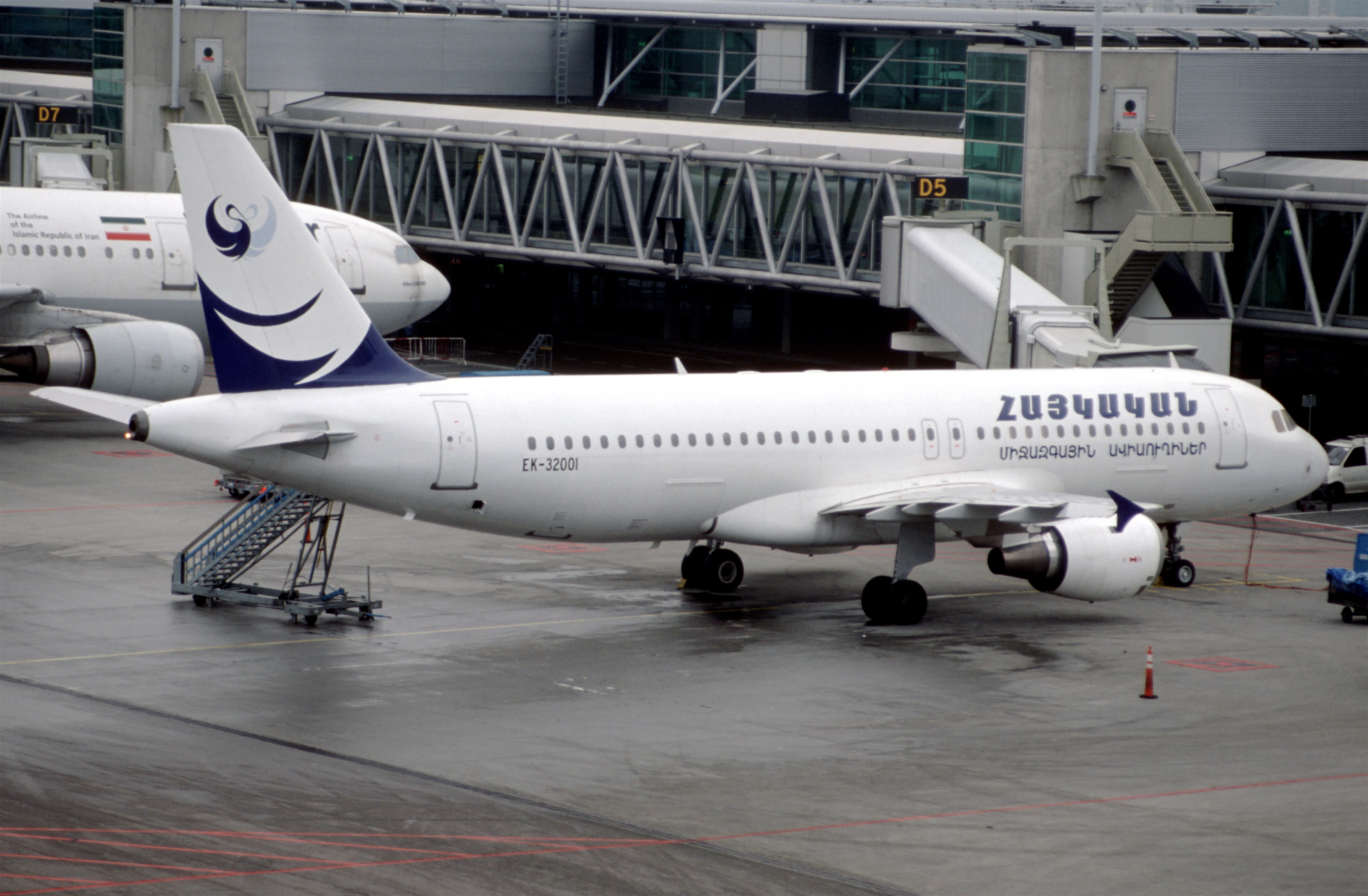 First flight: December 21, 1991...(c/n 397) 24/03/1993 ILFC N541LF 25/05/1993 Canada 3000 C-GVXA 02/01/2002 MSA N320AW 25/09/2002 Armenian International Airways EK-32001 19/07/2005 Tuninter EK-32001 25/09/2005 Afriqiyah Airways EK-32001 01/02/2006 Armenian International Airways EK-32001, destroyed in a hangar fire at Brussels on May 6, 2006, alongside Armavia Airbus A320 EK-32010, Hellas Jet SX-BVB and Belgian Air Force C-130 Hercules CH-02...